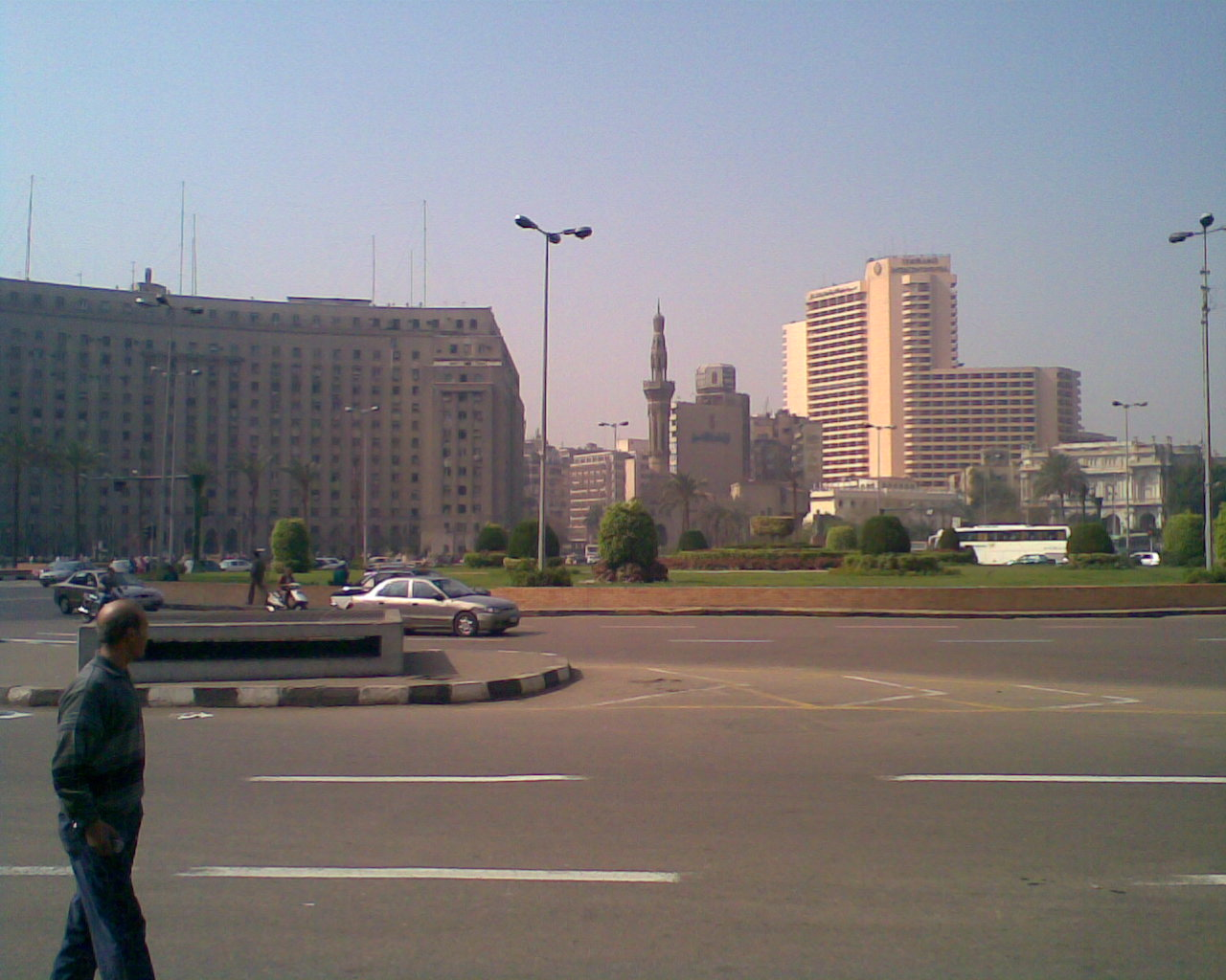 Tahrir square, Cairo, Egypt.